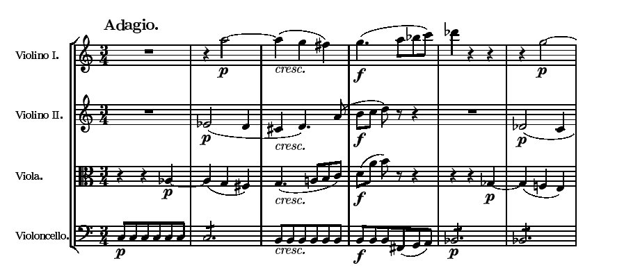 Opening of Quartet No. 19 (Mozart) "Dissonance" Breitkopf & Härtel edition, 1882, typeset by Maurizio Tomasi and released by him into the public domain.